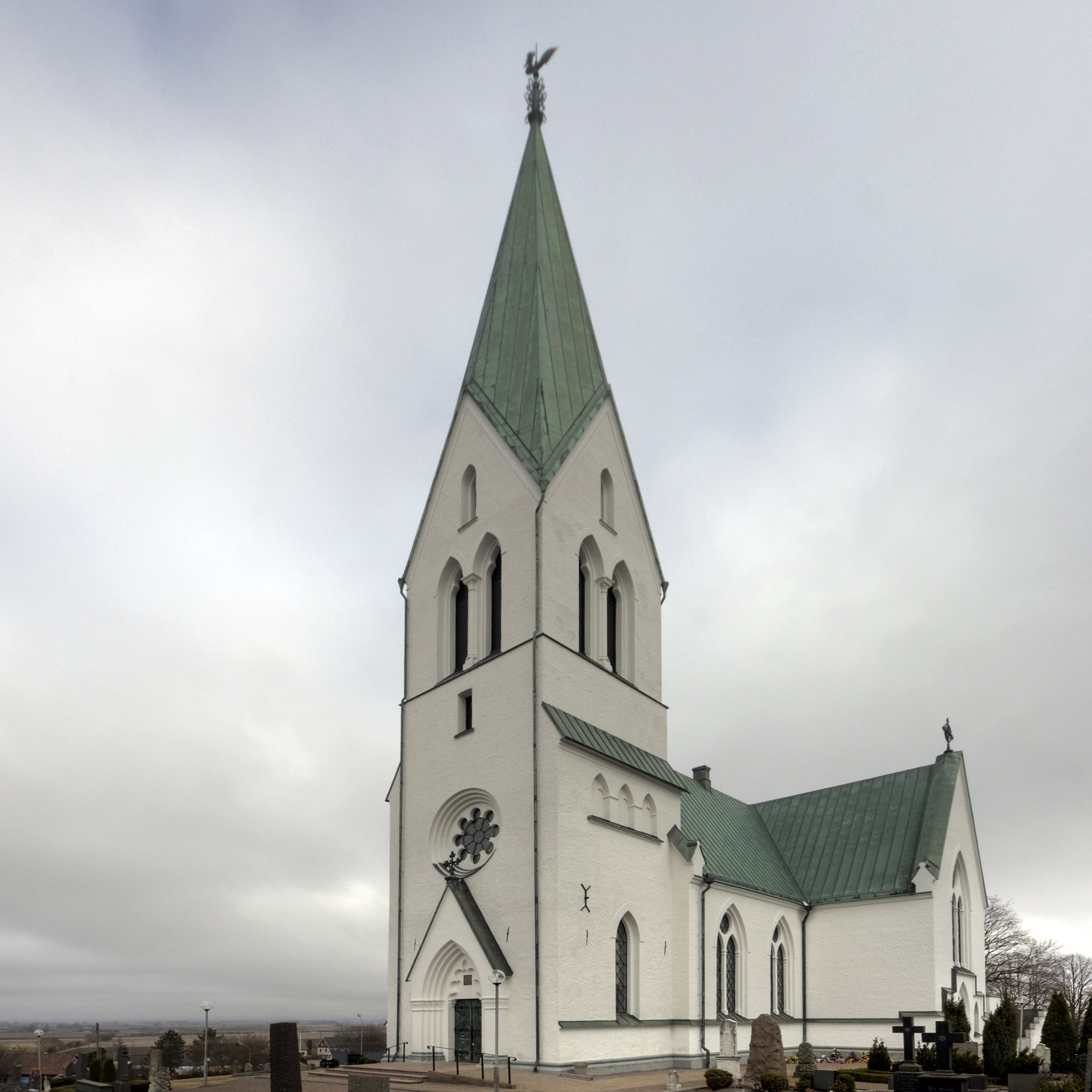 Björnekulla kyrka (Church of Björnekulla) is a church of Björnekulla-Västra Broby Parish in Åstorp, Sweden.